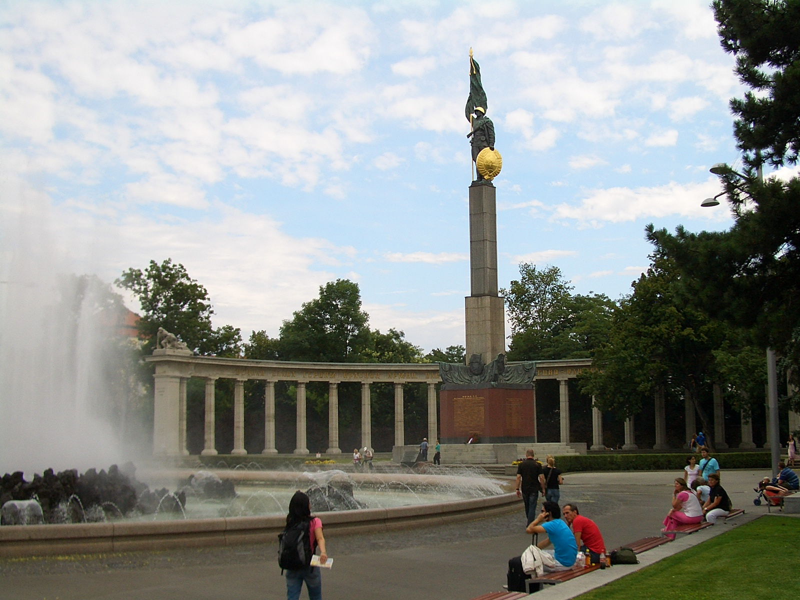 Austria, Vienna, Schwarzenbergplatz, Heroes Monument of the Red Army